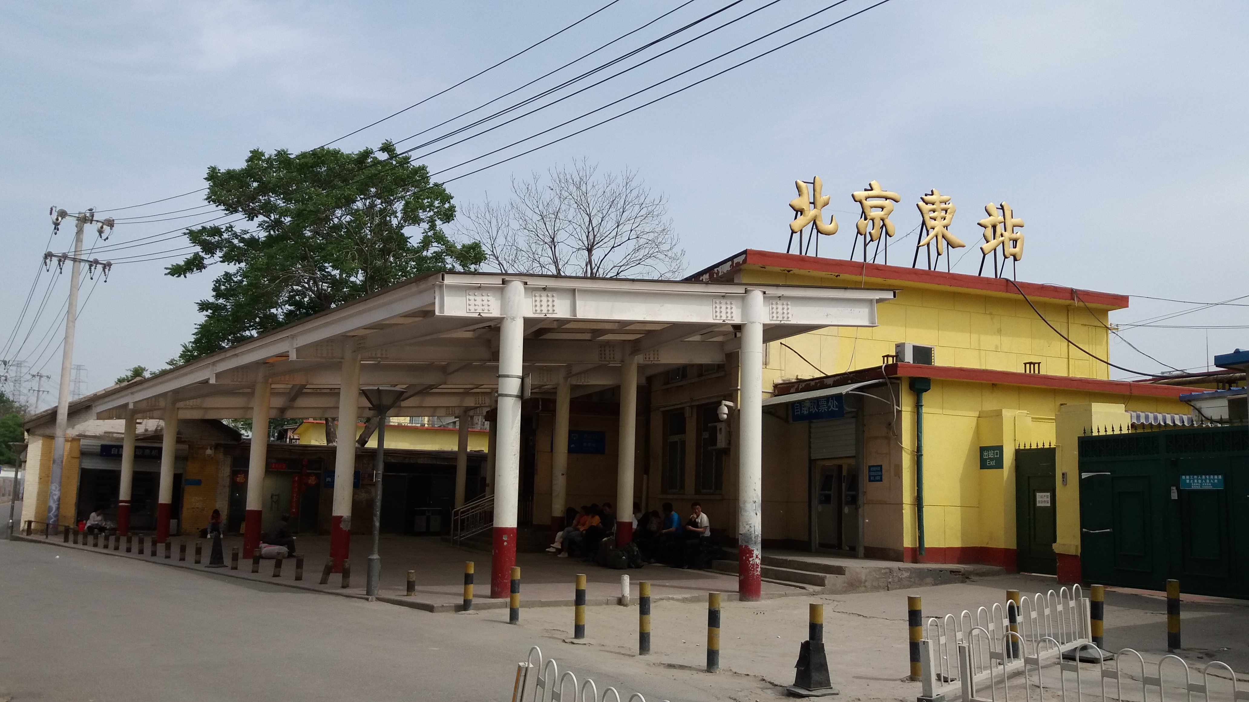 Beijing East Railway Station